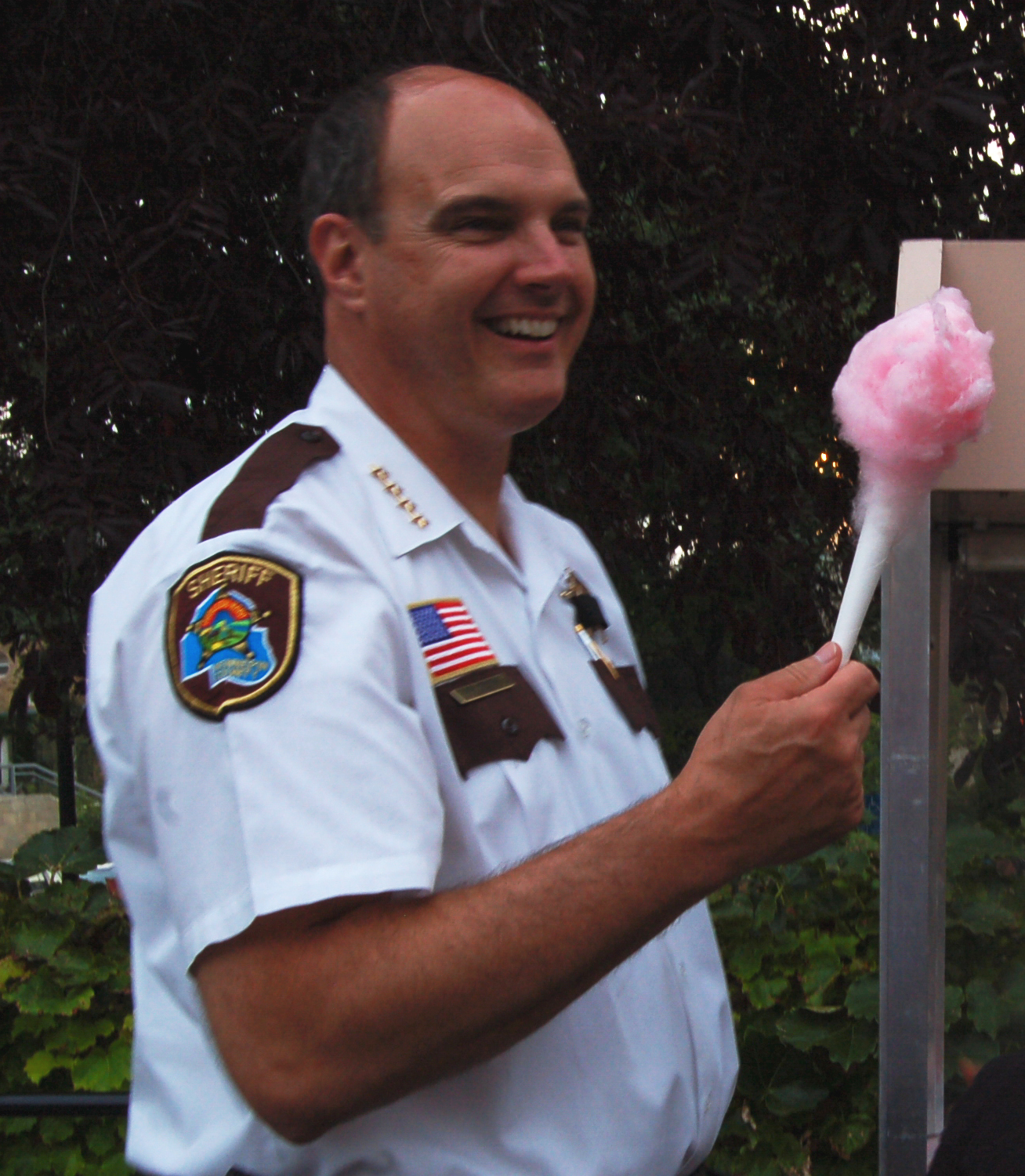 Hennepin County Sheriff Rick Stanek on National Night Out at the Woman's Club in downtown Minneapolis.